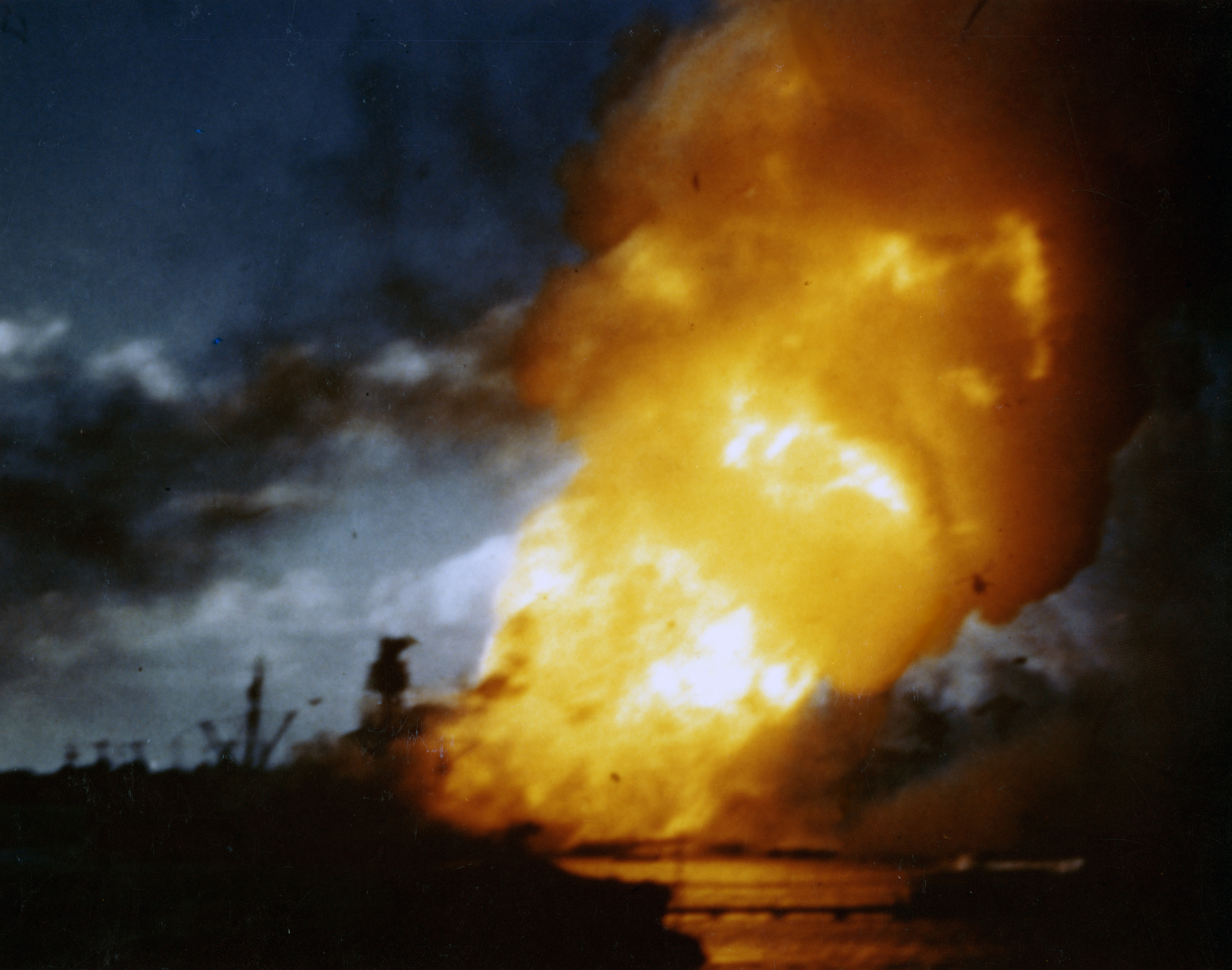 The U.S. Navy battleship USS Arizona (BB-39) ablaze at Pearl Harbor, immediately following the explosion of her forward magazines, on 7 December 1941.